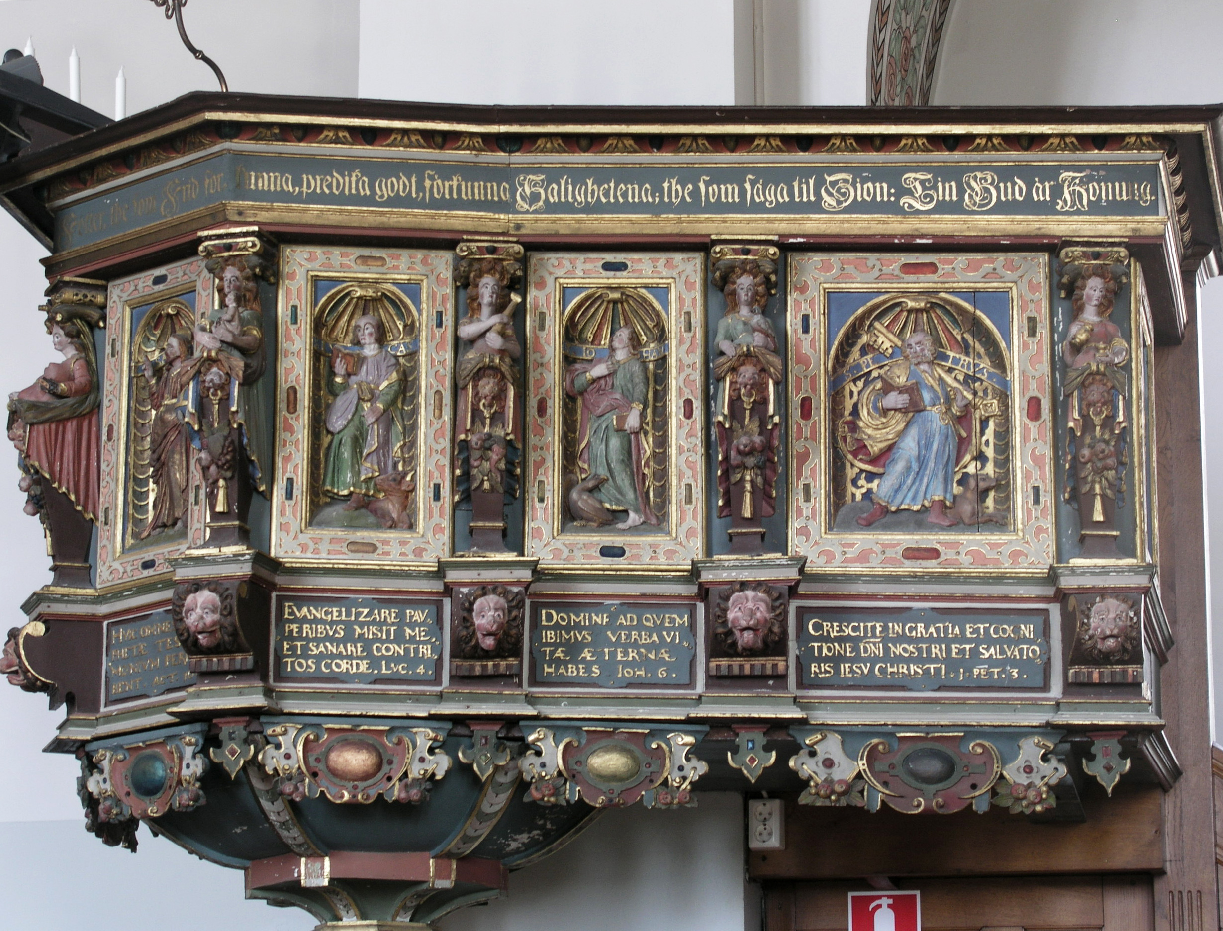 Valleberga kyrka/church. Pulpit